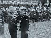 George E. Wahlen receiving the Medal of Honor from President Harry S Truman on October 5, 1945.